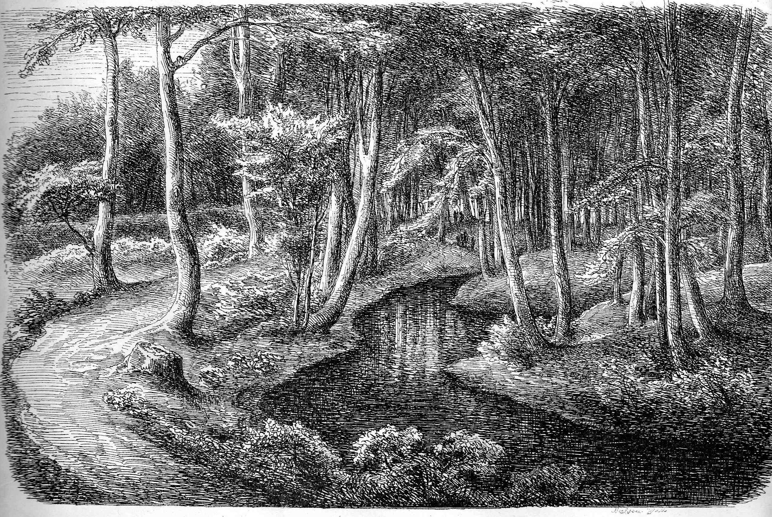 Scanned by myself from a copy of the old book in 2007. The book was graciously lent to me by Det Kongelige Garnisonsbibliotek.